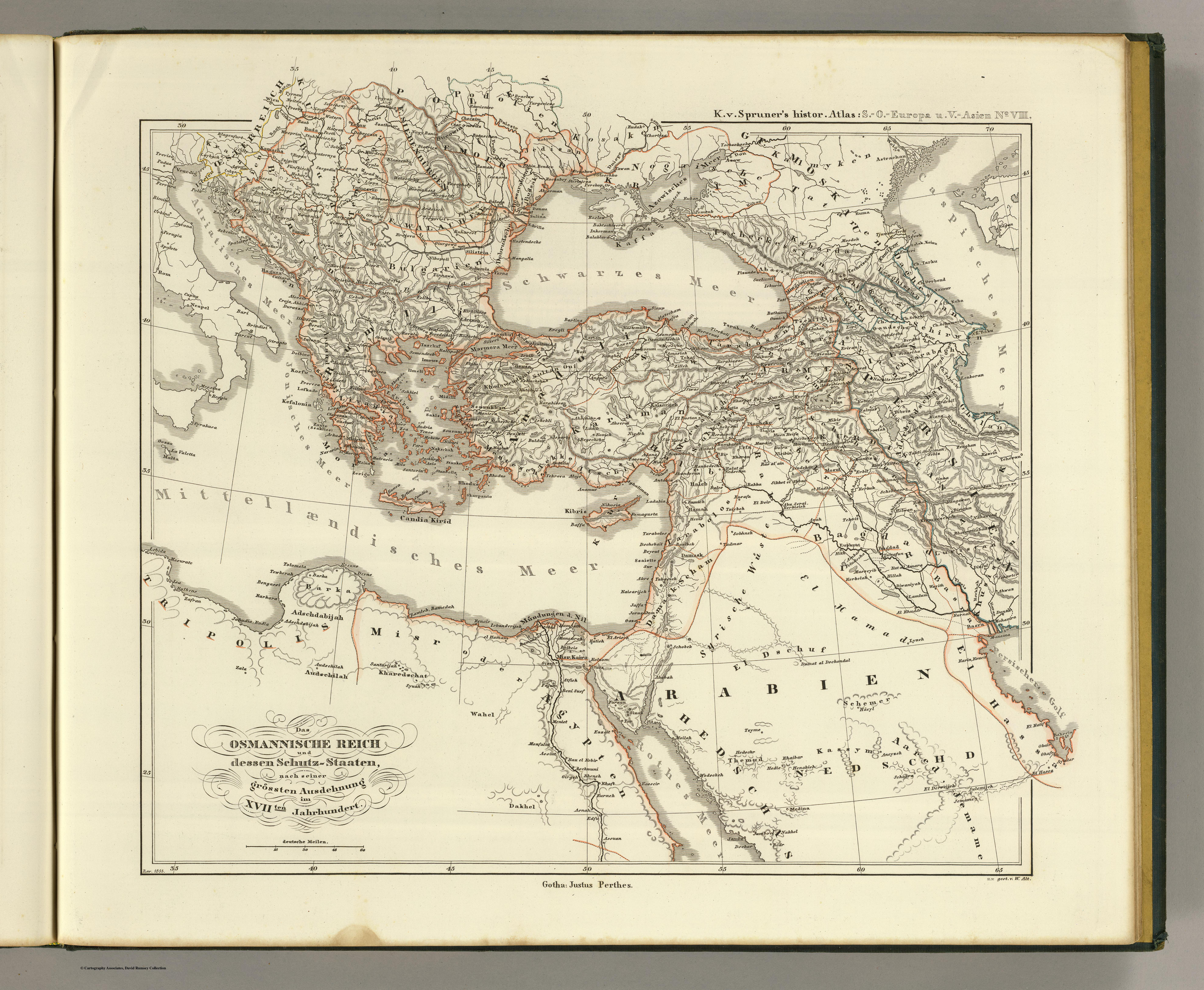 Author: Karl Spruner von Merz Date: 1855 Short Title: Das osmannische Reich, XVIIten Jahrhundert. Publisher: Justus Perthes Gotha Type: Atlas Map Obj Height cm: 34 Obj Width cm: 39 Scale 1: 9,200,000 Note: Hand colored map. Relief shown by hachures. World Area: Eastern Hemisphere Country: Turkey Region: Balkan Peninsula; Middle East Subject: Historical Full Title: Das osmannische Reich und dessen Schutz-Staaten, nach seiner grossten Ausdehnung im XVIIten Jahrhundert. Gest. v. W. Alt. K.v. Spruner's histor. Atlas: S.-O.-Europa u. V.-Asien No. VIII. Gotha: Justhus Perthes. Rev. 1855. List No: 2600.055 Page No: SO VIII Series No: 89 Engraver or Printer: Alt, W. Publication Author: Spruner von Merz, Karl Pub Date: 1854 Pub Title: Historisch-geographi scher Hand-Atlas zur Geschichte der Staaten Europa's vom Anfang des Mittelalters bis auf die neueste Zeit von Dr. Karl von Spruner ... Drei und Seibzig colorirte Karten nebst erlauternden Vorbemerkungen. Zweite Auflage. Gotha: bei Justhus Perthes. 1854(-1863) Pub List No: 2600.000 Pub Maps: 58 Pub Height cm: 38 Pub Width cm: 47